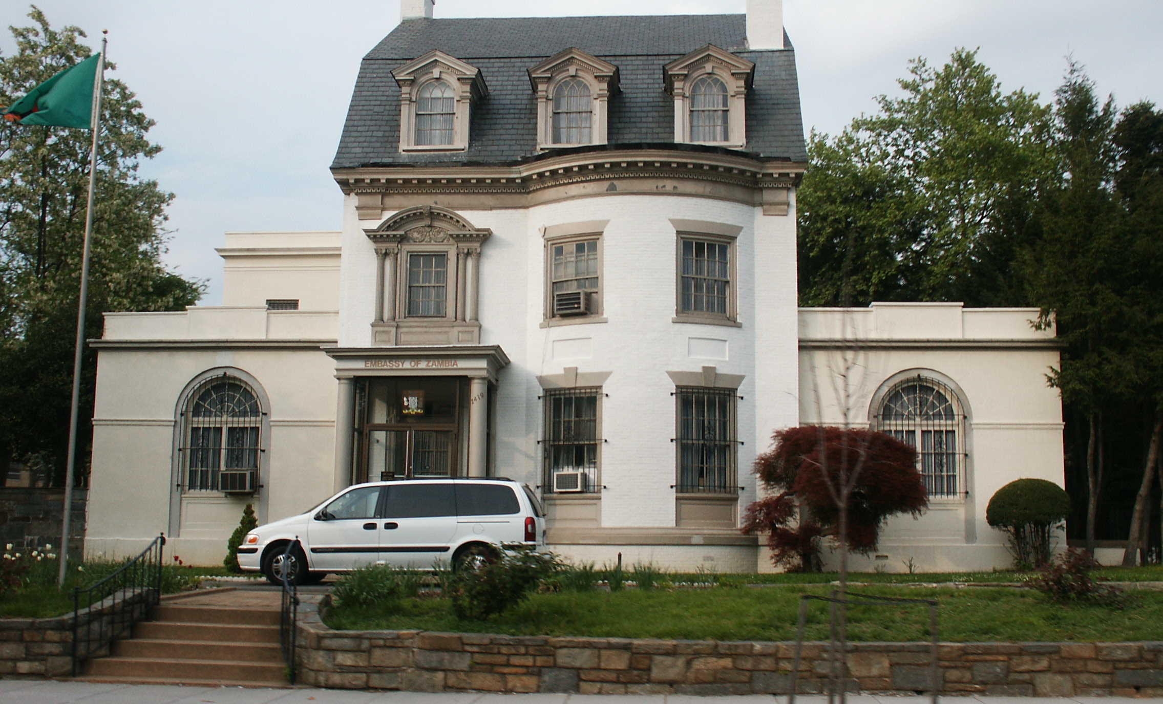 Embassy of the Republic of Zambia to the United States, located at 2419 Massachusetts Ave. NW in Washington, D.C.